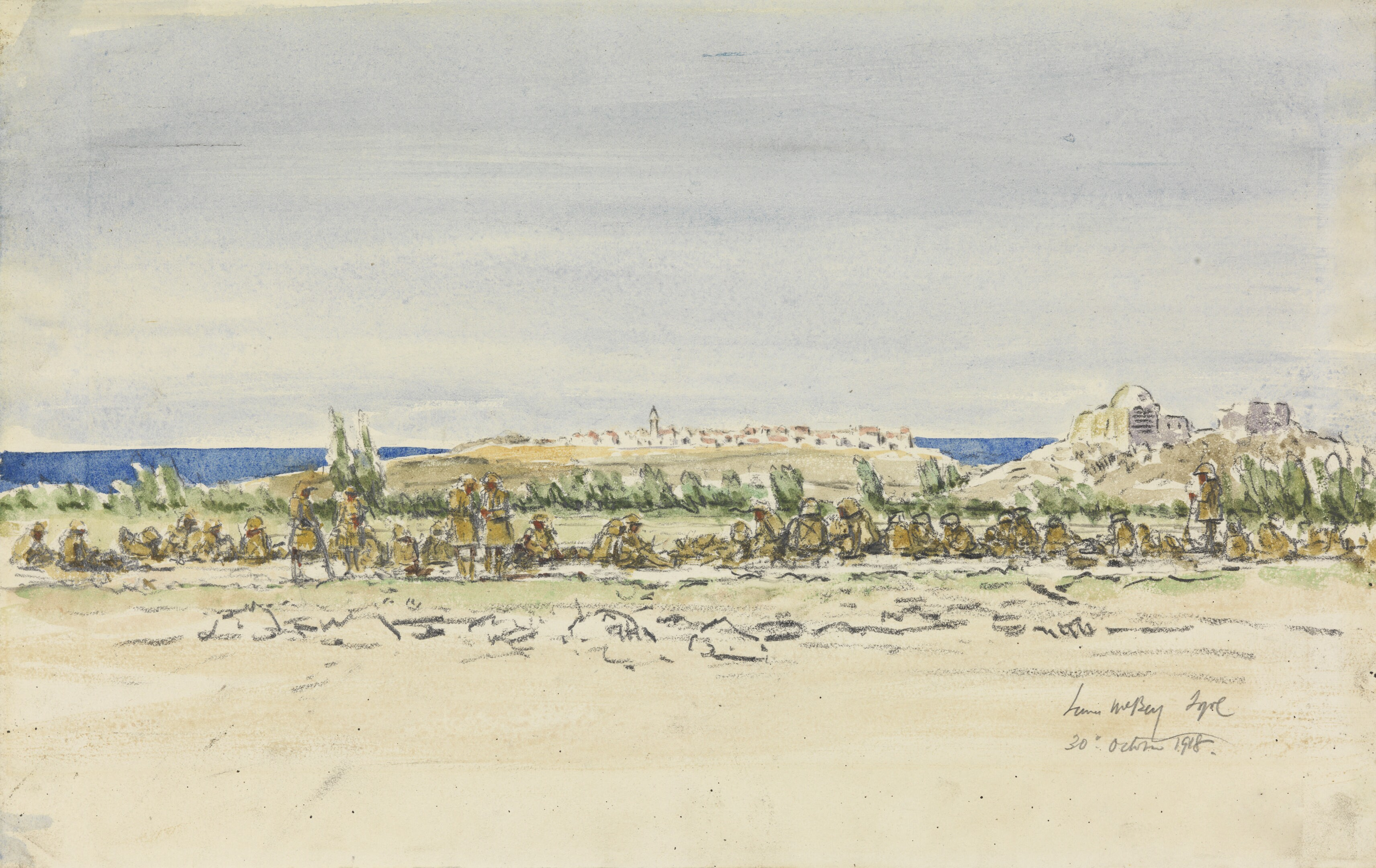 Tyre - Seaforth Highlanders resting in their march north to Beyrout image: infantrymen of the Seaforth Highlanders sit and rest along a narrow road that runs across the composition. Further back can be seen the buildings and roofs of the town of Tyre, with the sea visible beyond.